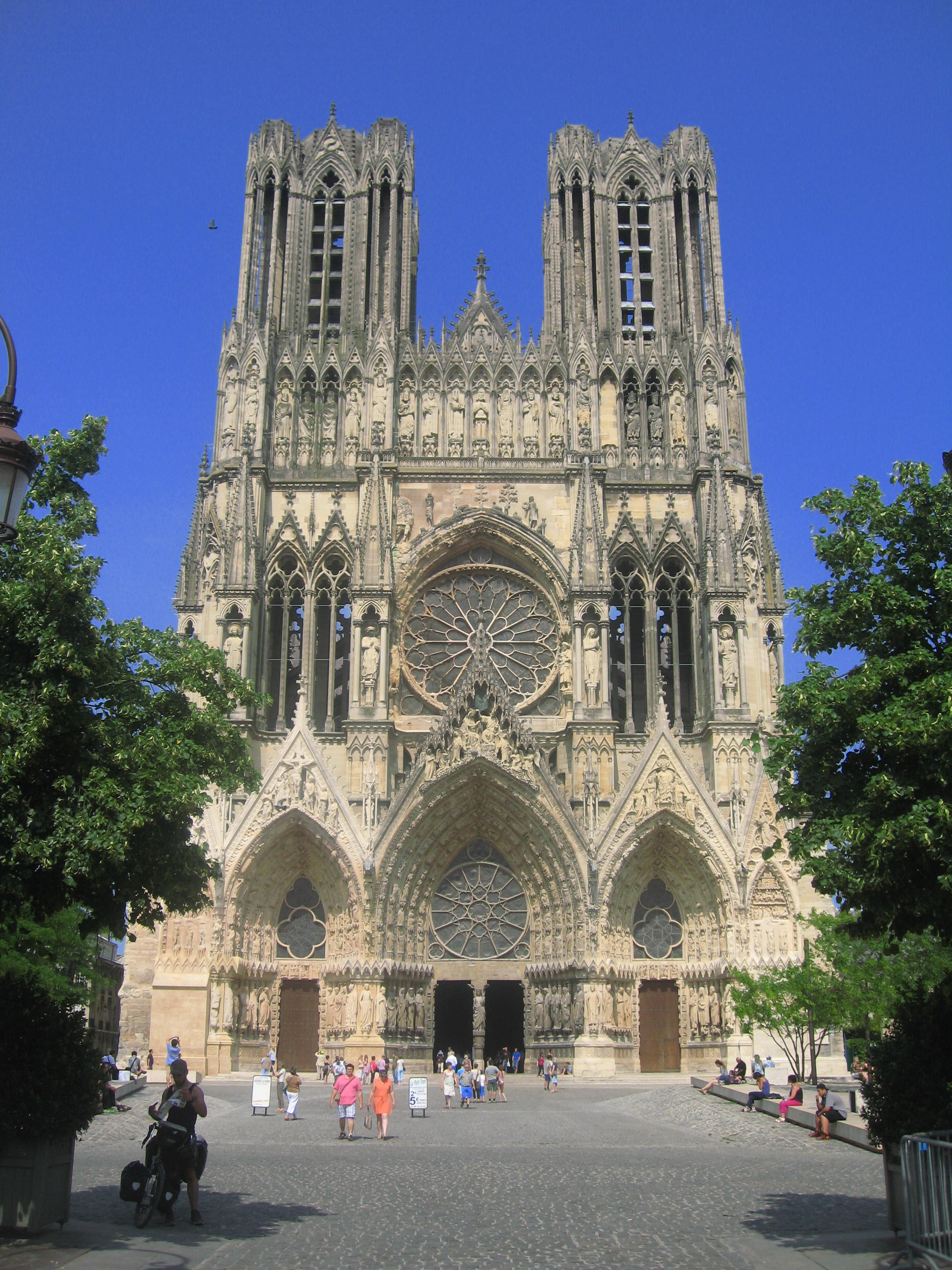 Reins Cathedral, France